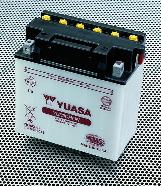 Features two extra plate cells to provide 30% more cranking power, and “Sulfate Stop‚” to help retard the formation of sulfides on the plates for a longer, trouble-free life. $79.95